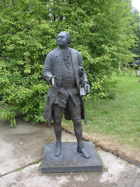 Mihail Lomonosov, a sculpture by M. Baranov 1980, bronze